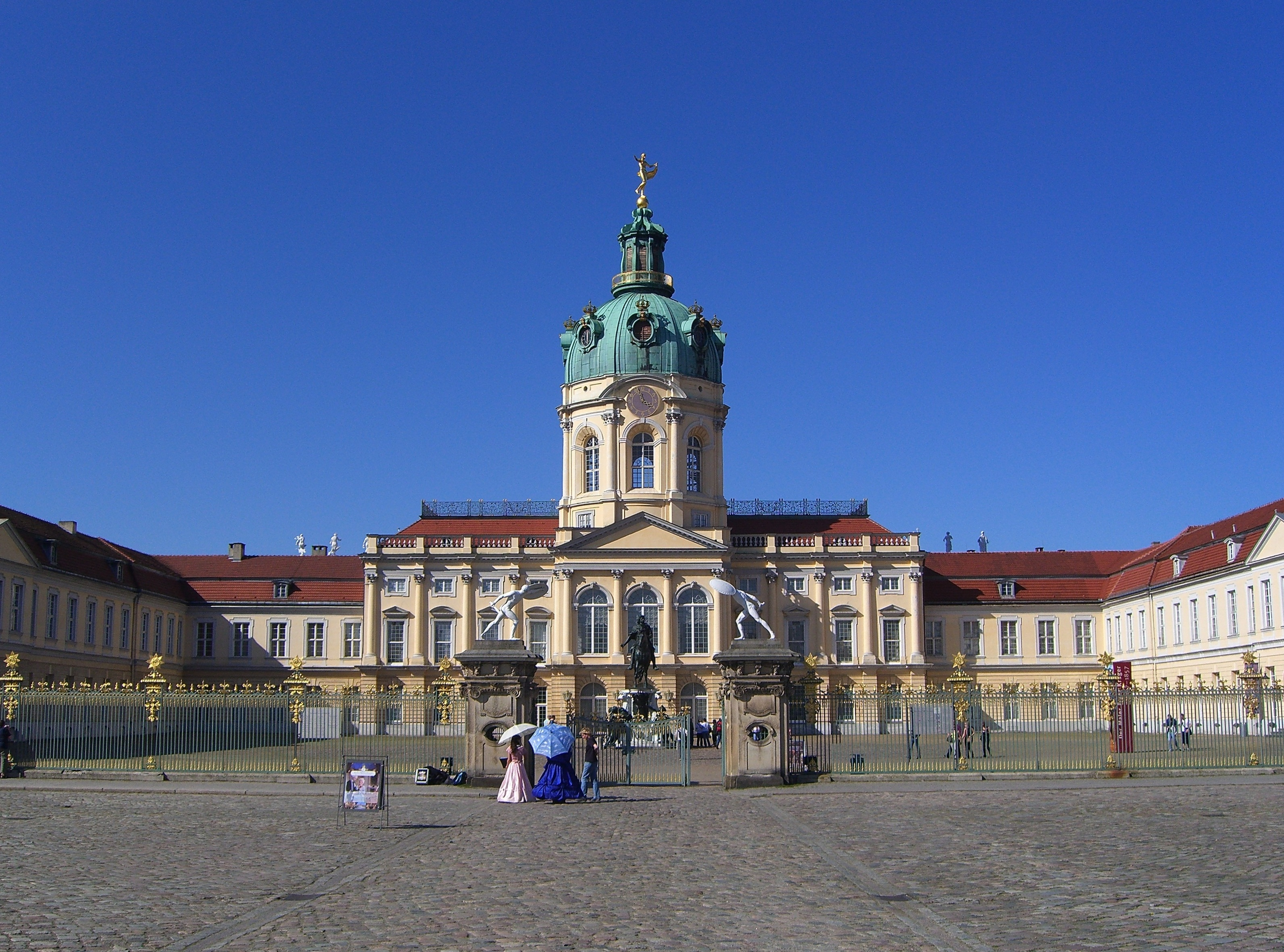 Palace Charlottenburg with Court of Honour and statue of Frederick William (elector of Brandenburg) in Berlin